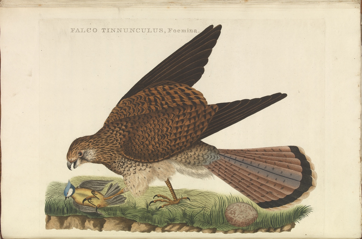 Plate 158 from the Nederlandsche vogelen by Nozeman and Sepp.